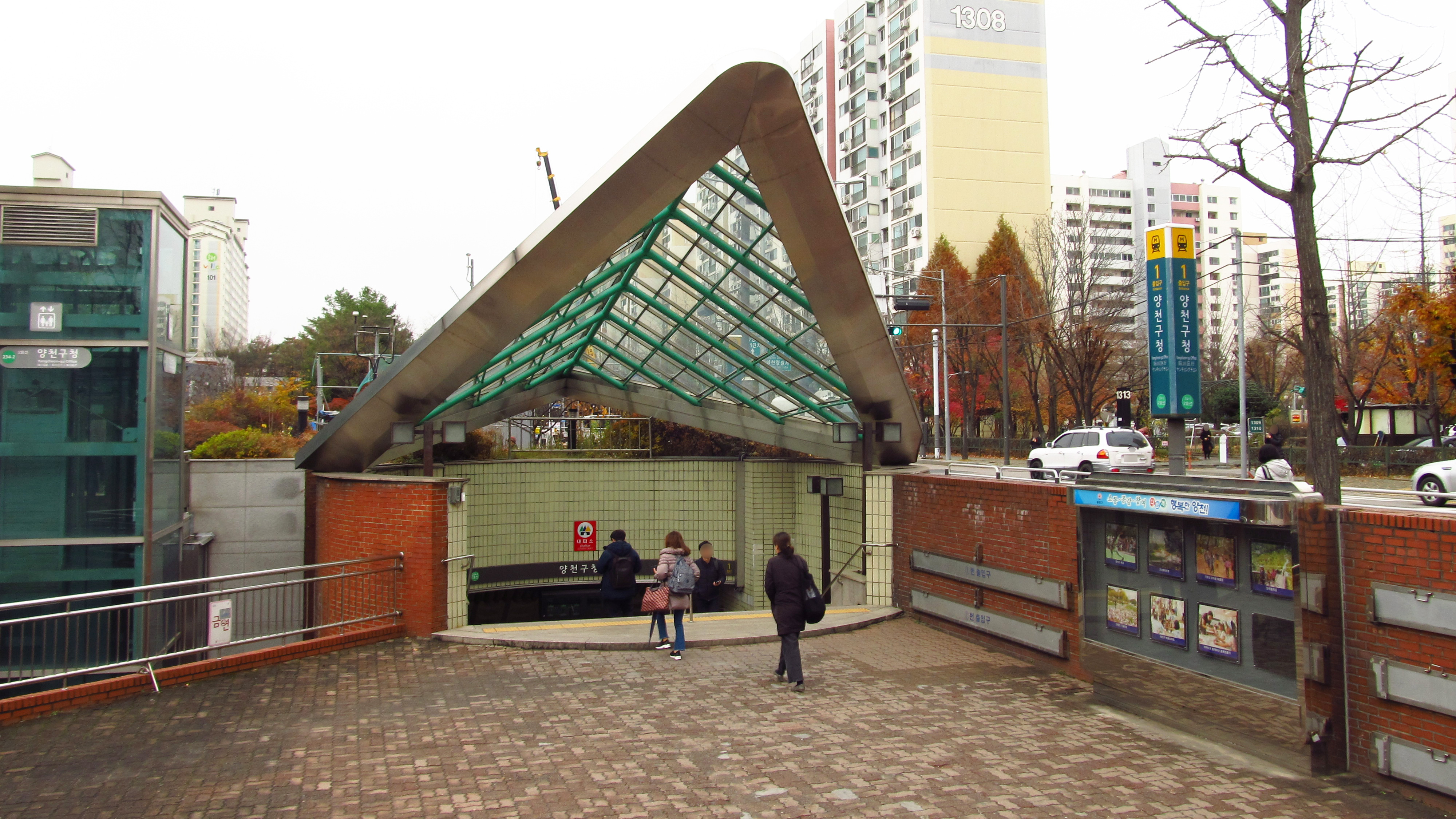 The no.1 entrance to Yangcheon-gu Office Station on the Seoul Metro Line 2 in Yangcheon-gu, Seoul, Republic of Korea(South Korea)